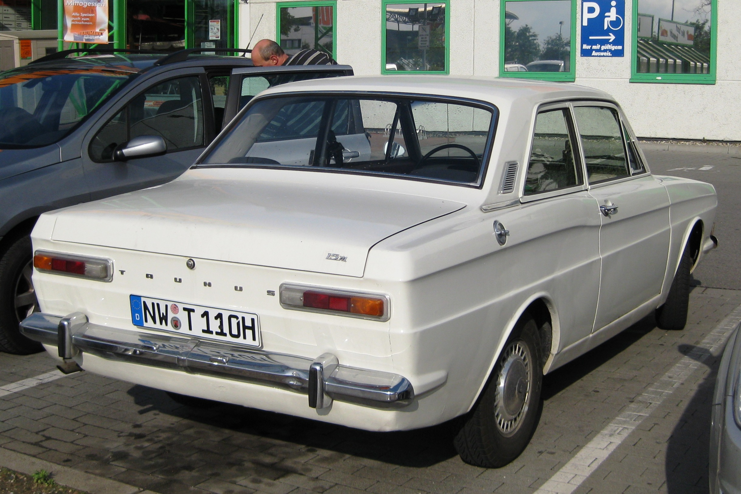 Ford Taunus 15M Berline